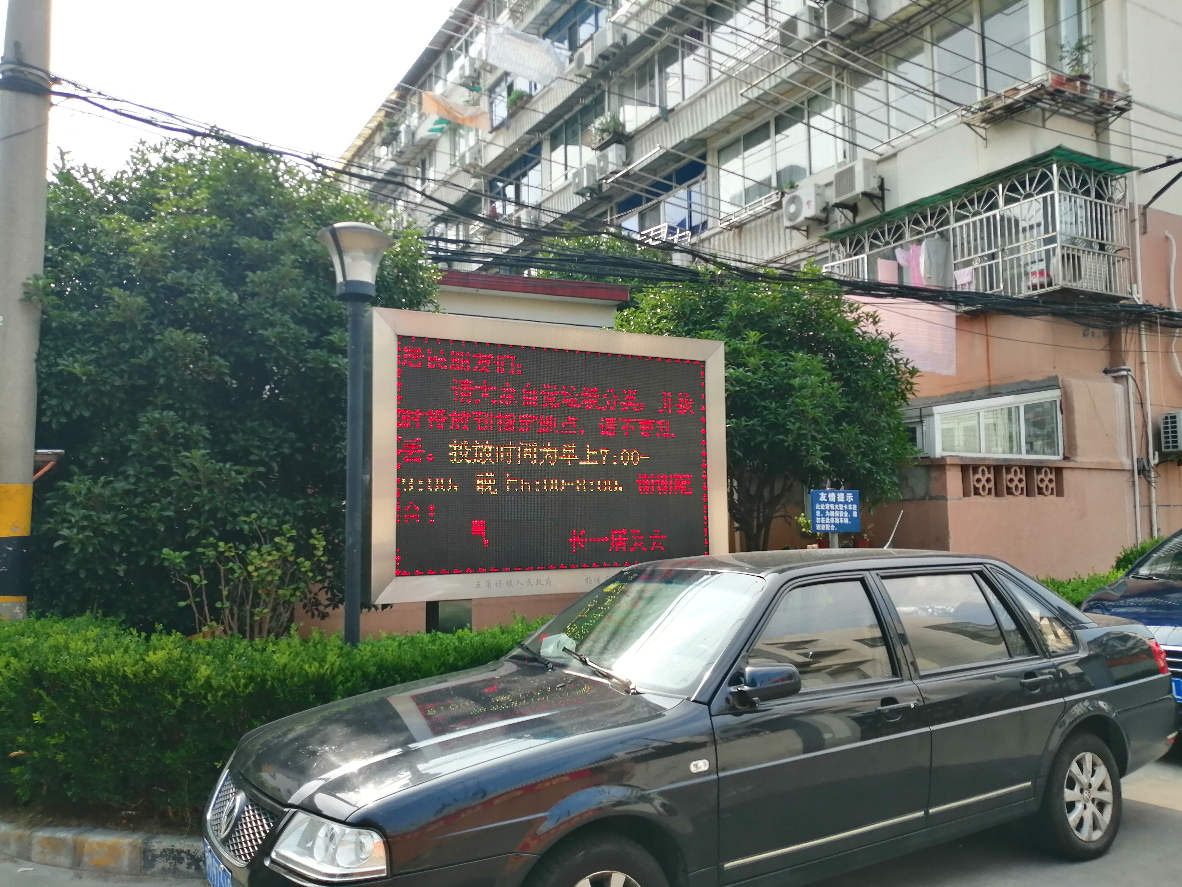 A throw waste notice, taken in Changhai Yicun, Shanghai 中文（中国大陆）: 上海市杨浦区长海一村的垃圾定时定点投放告示